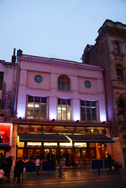 The Moon under Water, Deansgate The Wetherspoons pub. I don't know whether it still is, but this was the largest pub in the UK, occupying a former cinema.